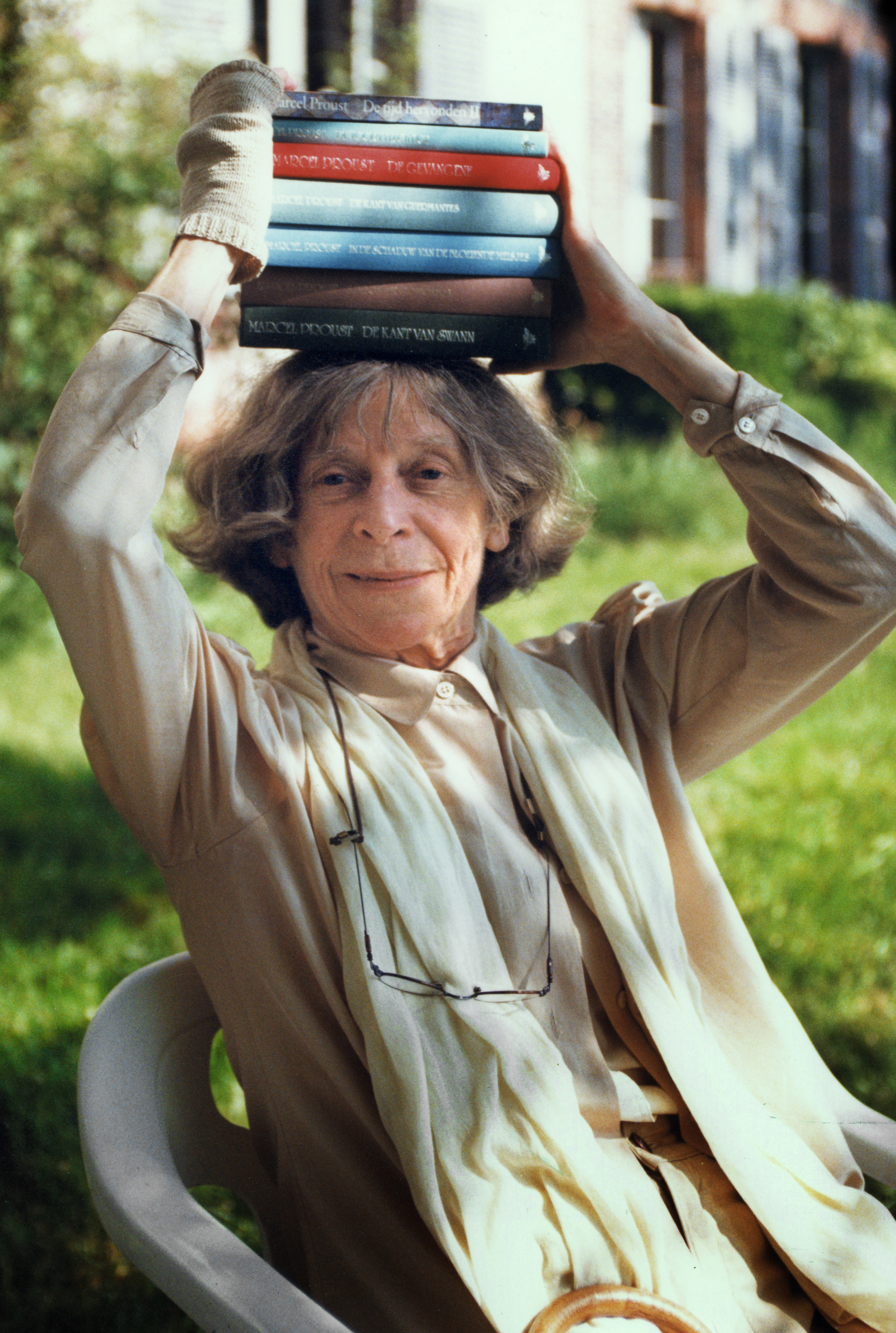 Thérèse Cornips (translator of Marcel Proust) in Illiers-Combray